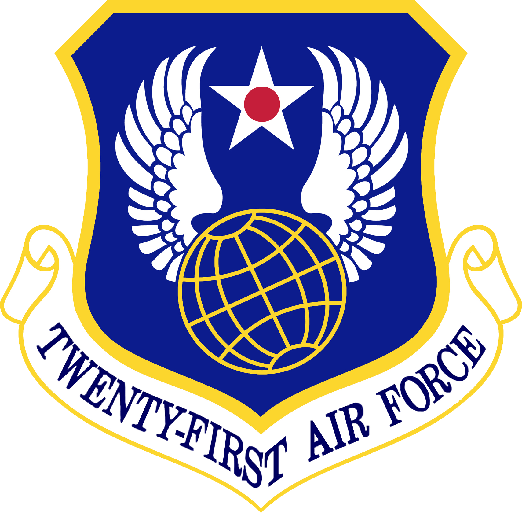 Emblem of the 21st Air Force of the United States Air Force